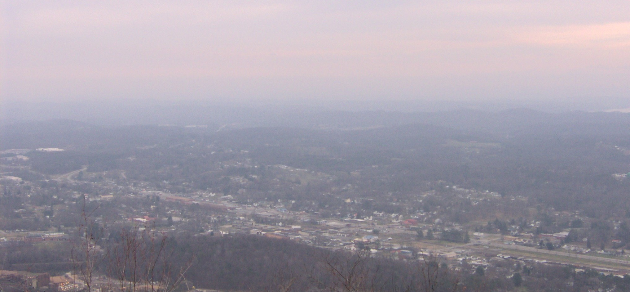 Rockwood, Tennessee, as viewed from the Mount Roosevelt overlook at the edge of the Cumberland Plateau. The Tennessee Valley is in the distance.